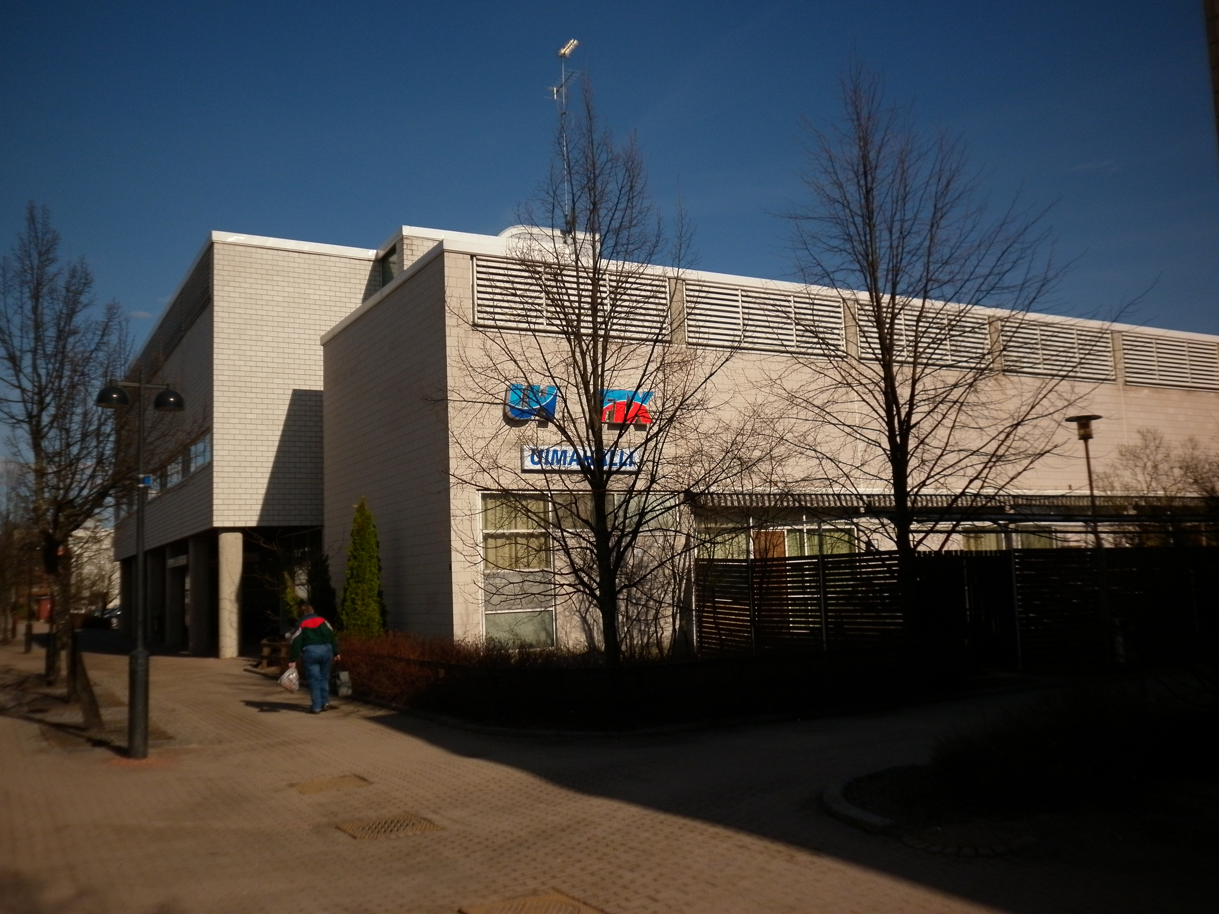 Swimming pool in Malmi, Helsinki, Finland